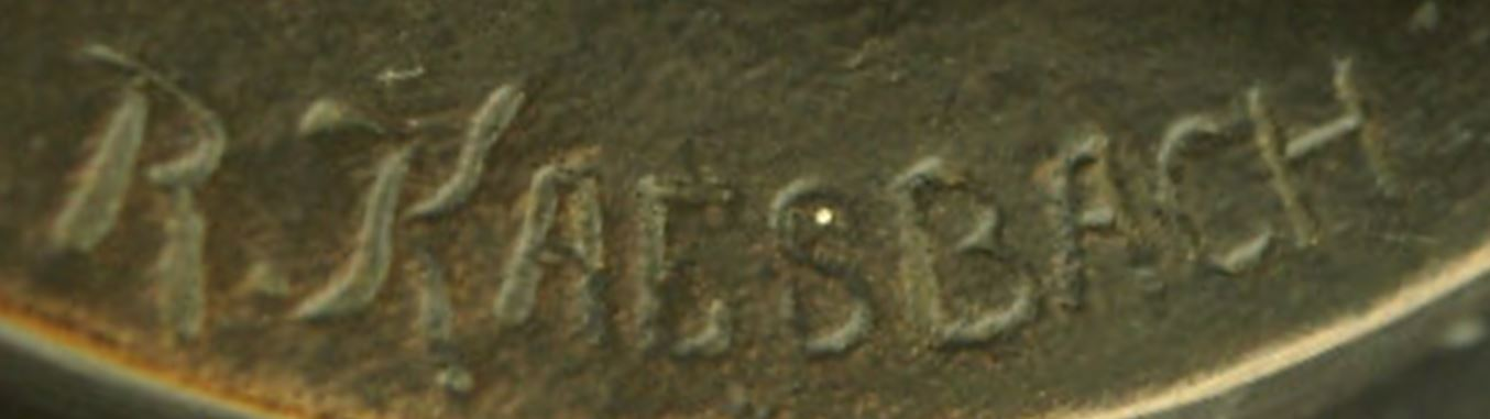 Signature of German sculptor Rudolf Kaesbach (1879-1961)